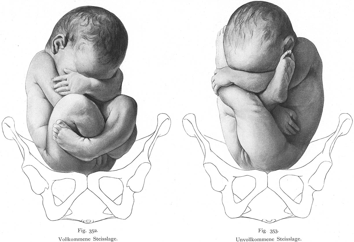 Illustration from Grundriss zum Studium der Geburtshülfe 1902